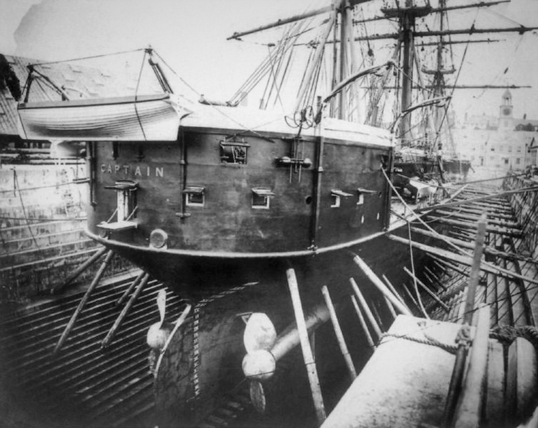 HMS Captain, launched 1869 and sank 1870